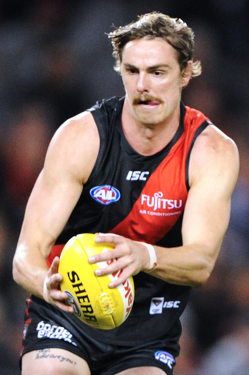 Joe Daniher of Essendon during the 2018 AFL round 6 match between Essendon and Melbourne at Etihad Stadium on Sunday, 29 April 2018 in Melbourne, Victoria.